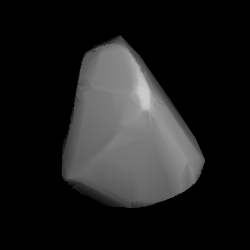 3D convex shape model of 706 Hirundo, computed using light curve inversion techniques. J. Hanuš, J. Ďurech, M. Brož, B. D. Warner (June 2011). "A study of asteroid pole-latitude distribution based on an extended set of shape models derived by the lightcurve inversion method". Astronomy and Astrophysics 530: A134. ISSN 0004-6361. arXiv